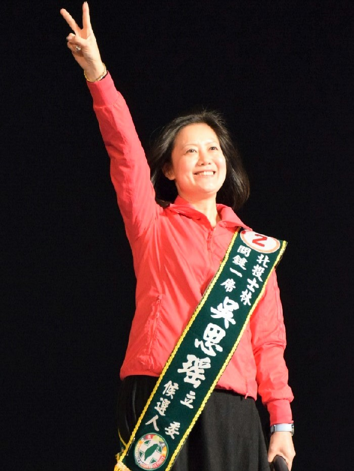 Wu Su-yao